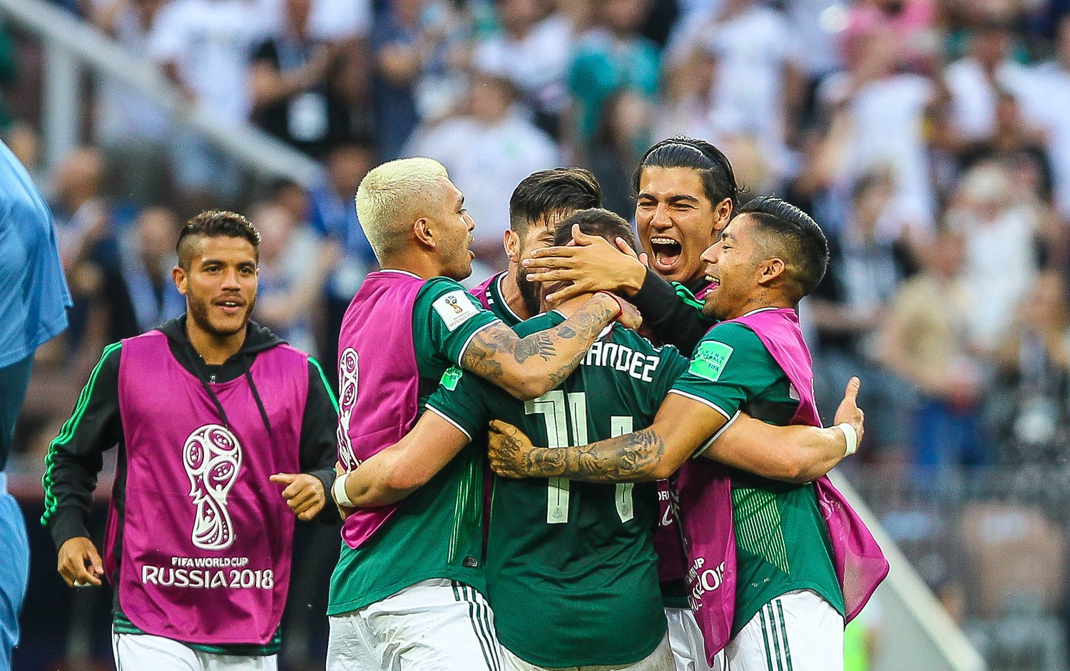 Germany and Mexico match at the FIFA World Cup 2018-06-17